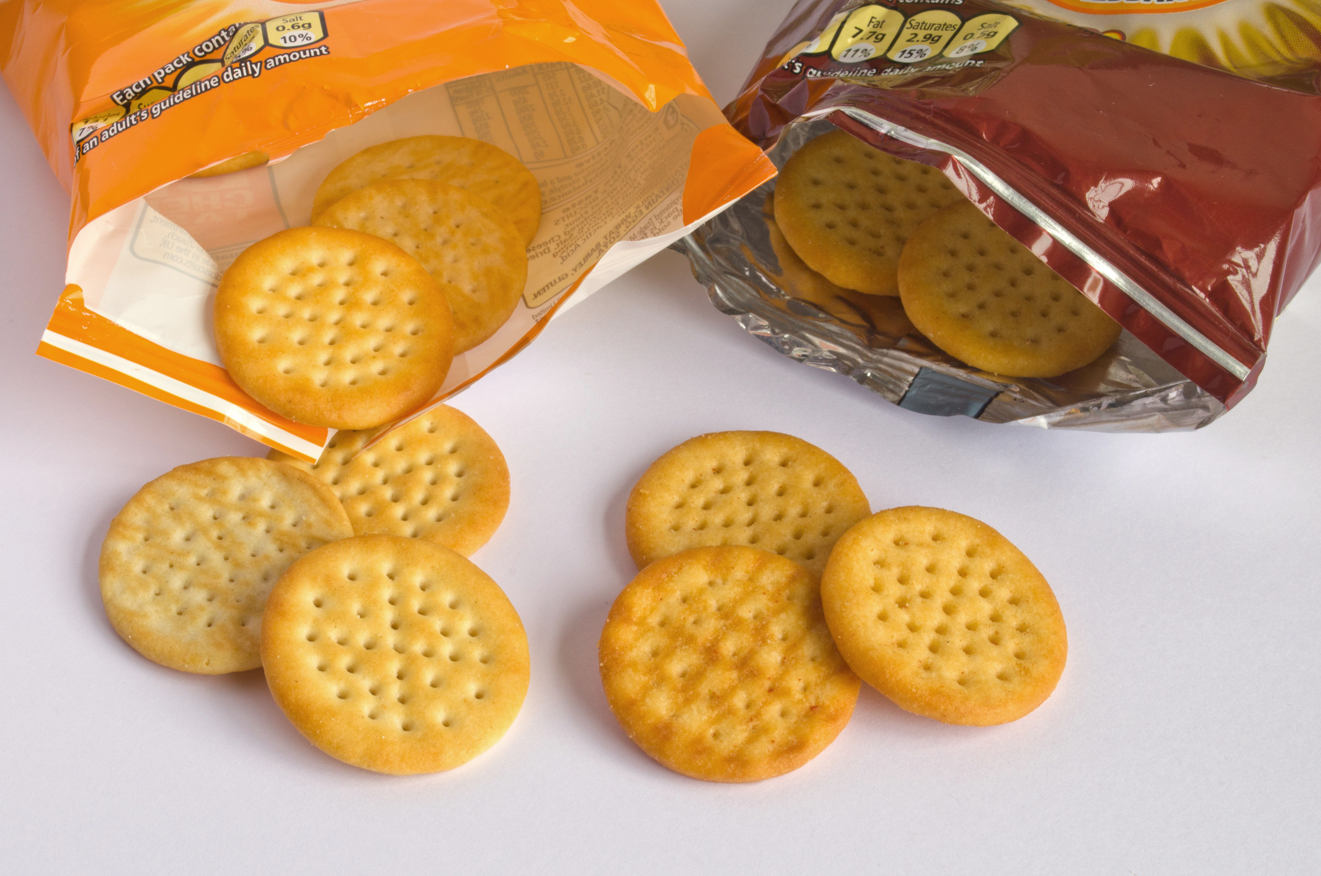 McVities-branded (see notes below) "Baked Mini Cheddars" snack biscuits. Three "original" cheese flavour biscuits (left) and three "BBQ" flavour (right). The colouration of the BBQ cheddars is slightly darker (and the texture is also slightly different to the originals).